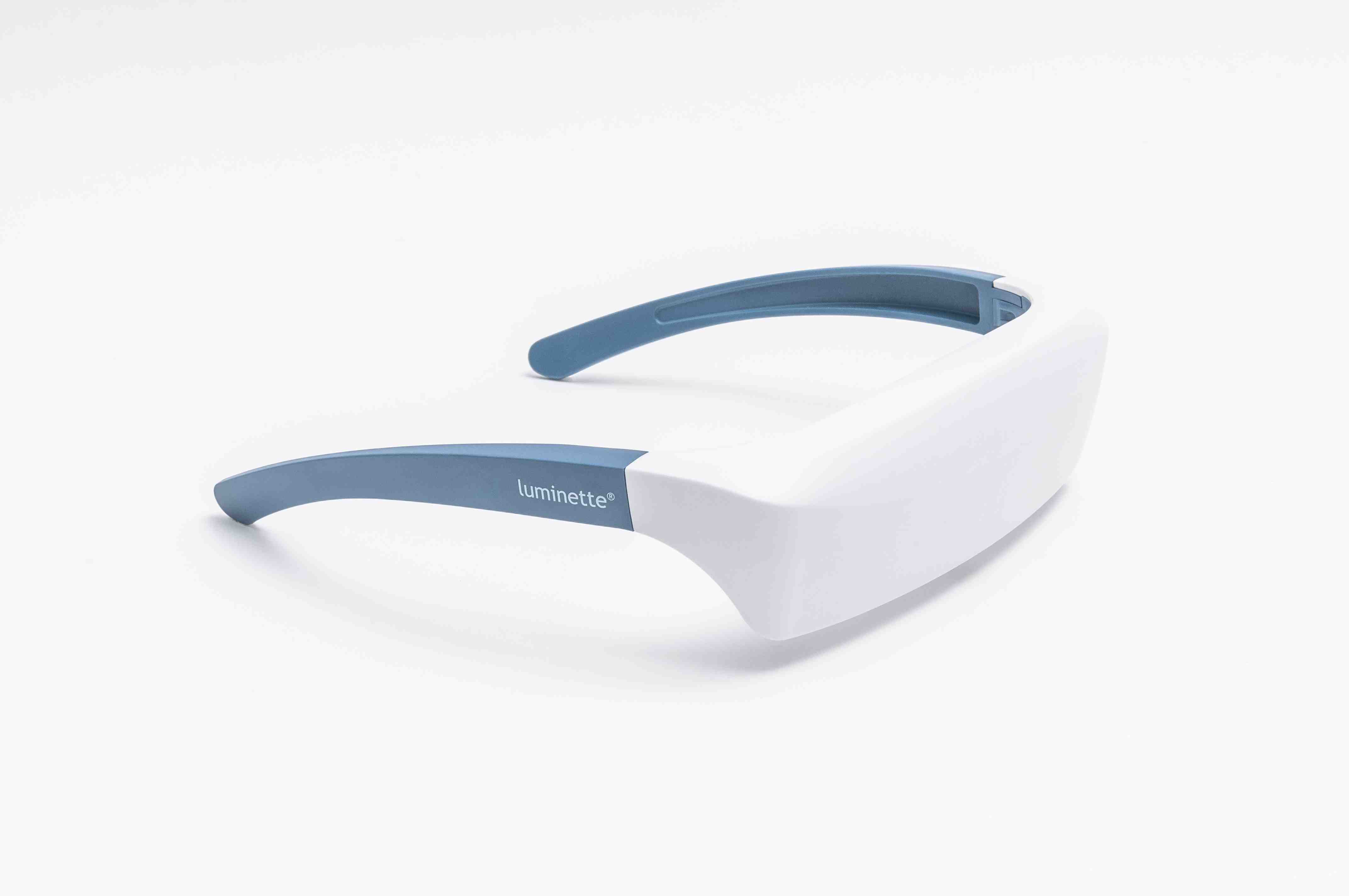 Lunettes de luminothérapie